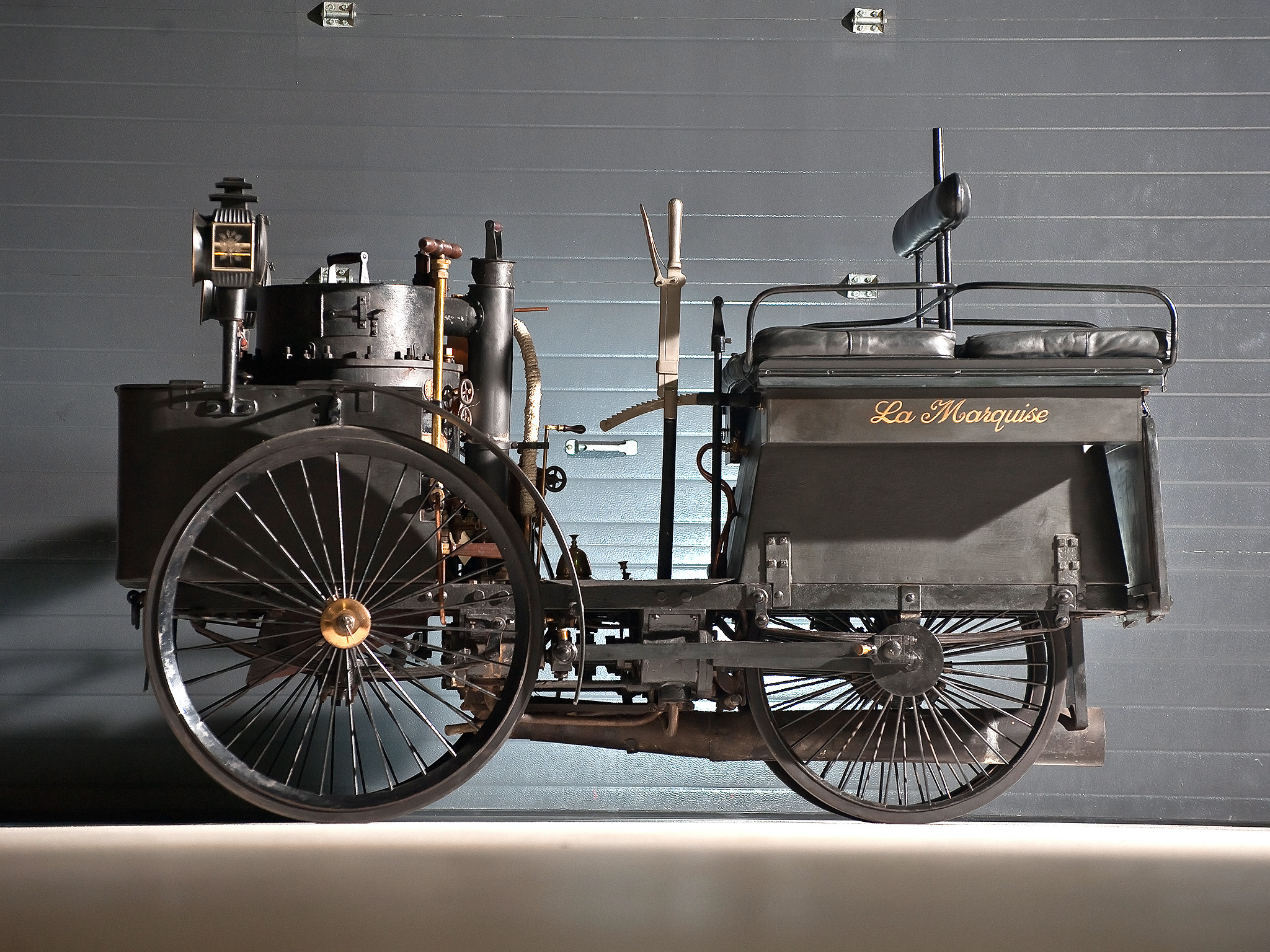 De Dion Bouton 1884